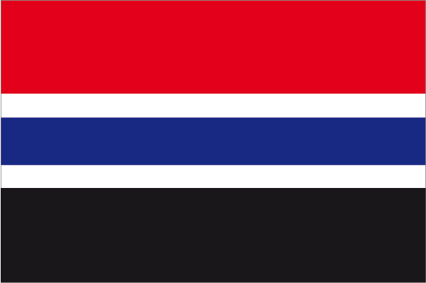 Isar flag